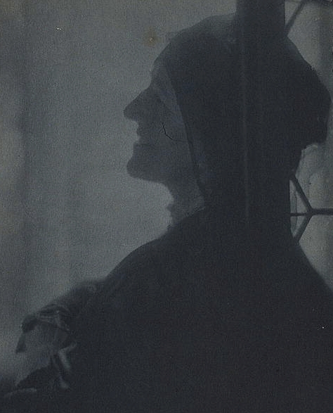 Portrait photograph of American photographer Gertrude Käsebier (1852-1934) by Adolf de Meyer (1868-1946)